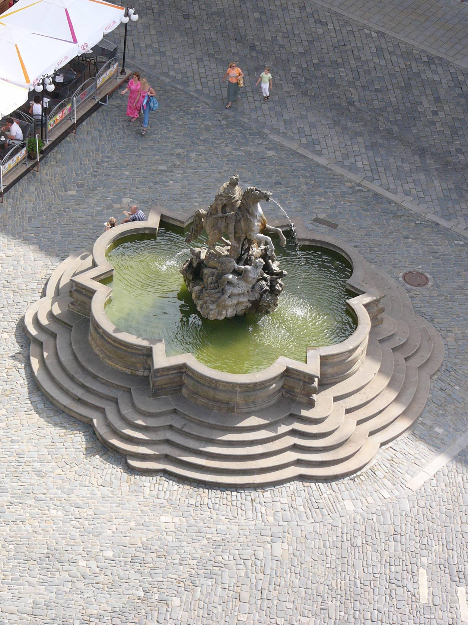 Fountain of Caesar in Olomouc (Czech Republic).